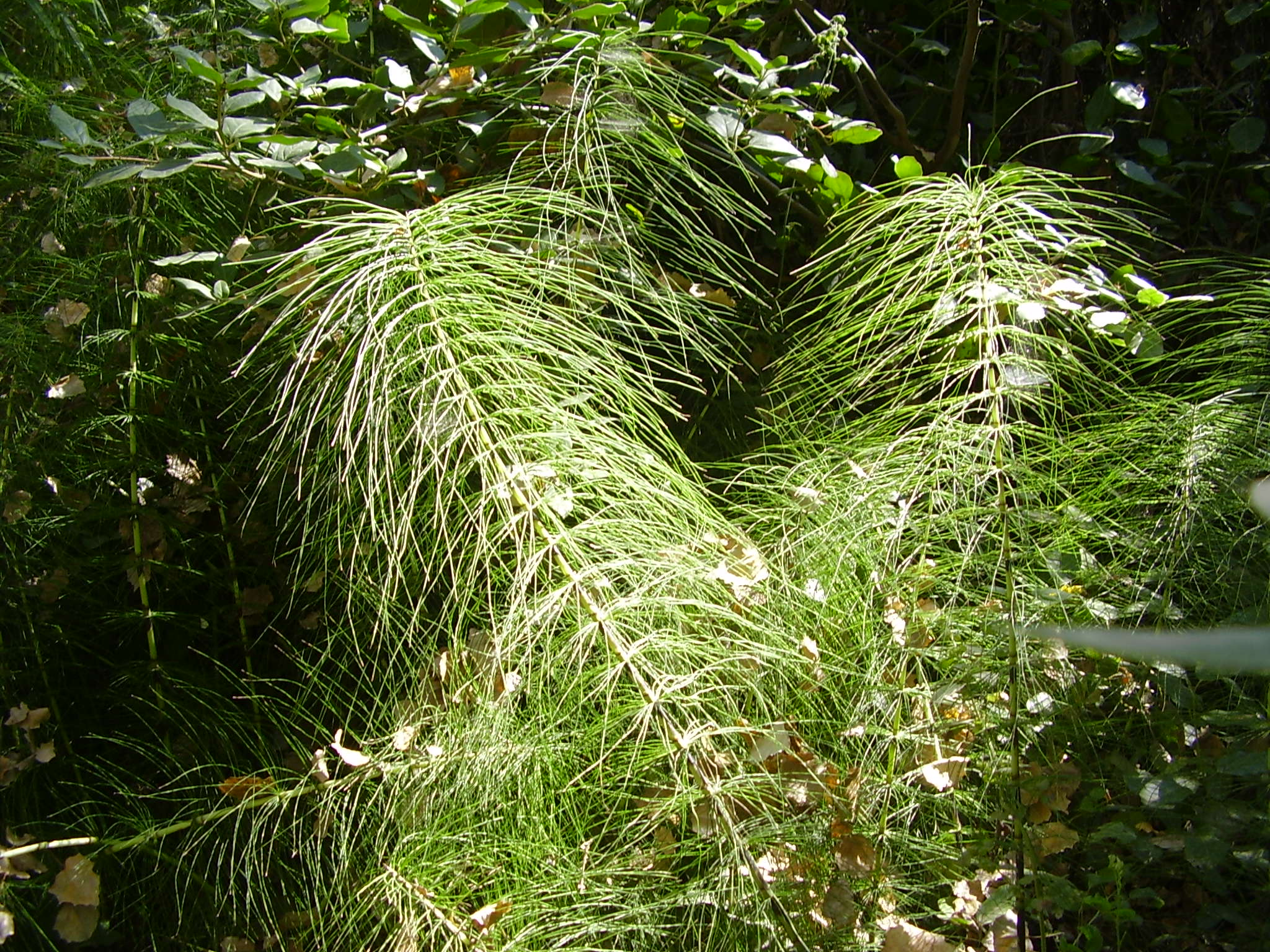 equisetum telmateia in kibbutz hagoshrim, israel